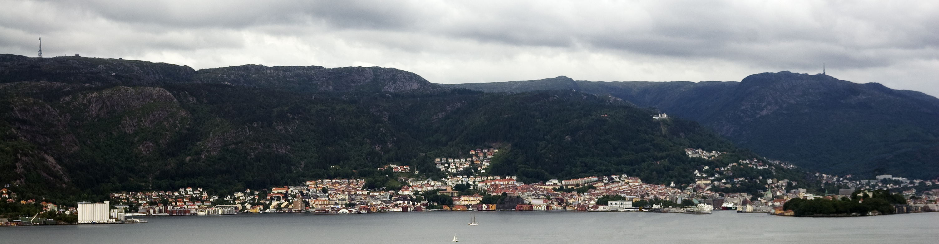 Panorama of the bay of Sandviken in Bergen, Norway. Taken from the island of Askøy.